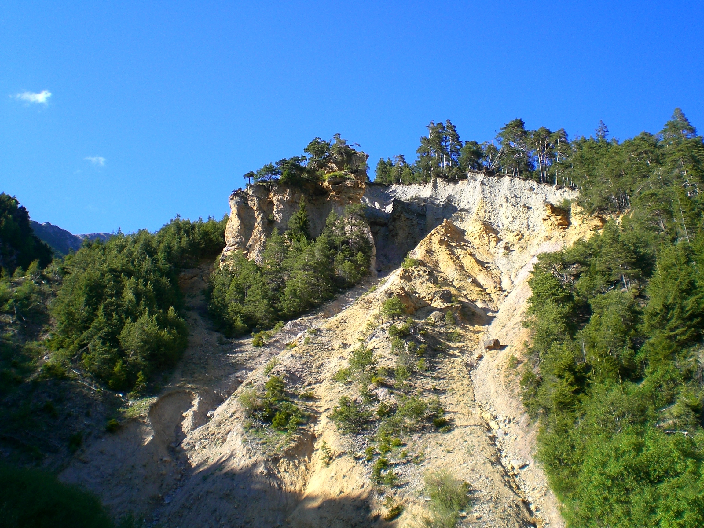 Erstwhile tuff pit above the sulphurous Wildbad spring in Grins, Austria